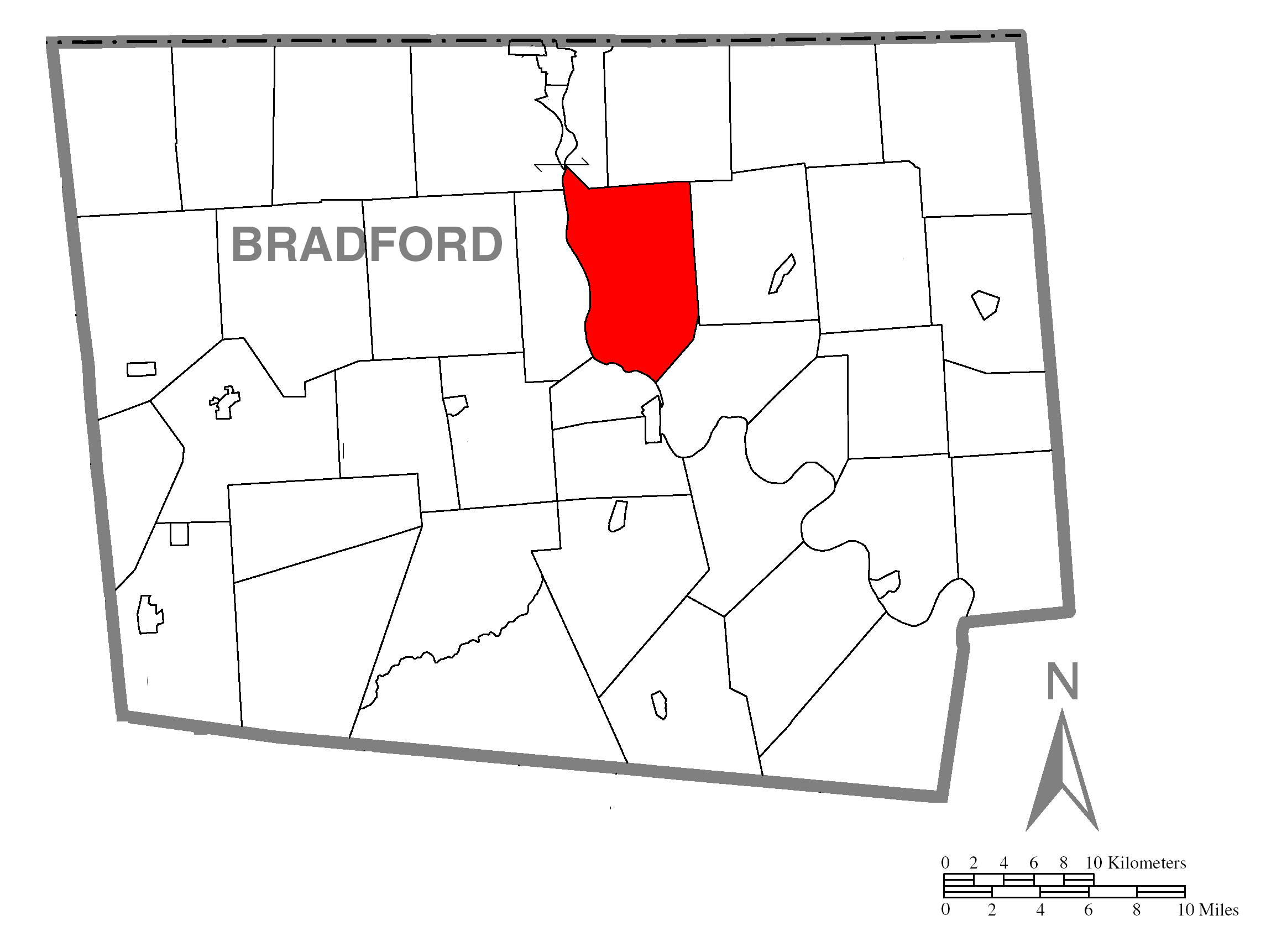 A map of Bradford County showing Sheshequin Township, Pennsylvania (alternate) highlighted on the map.